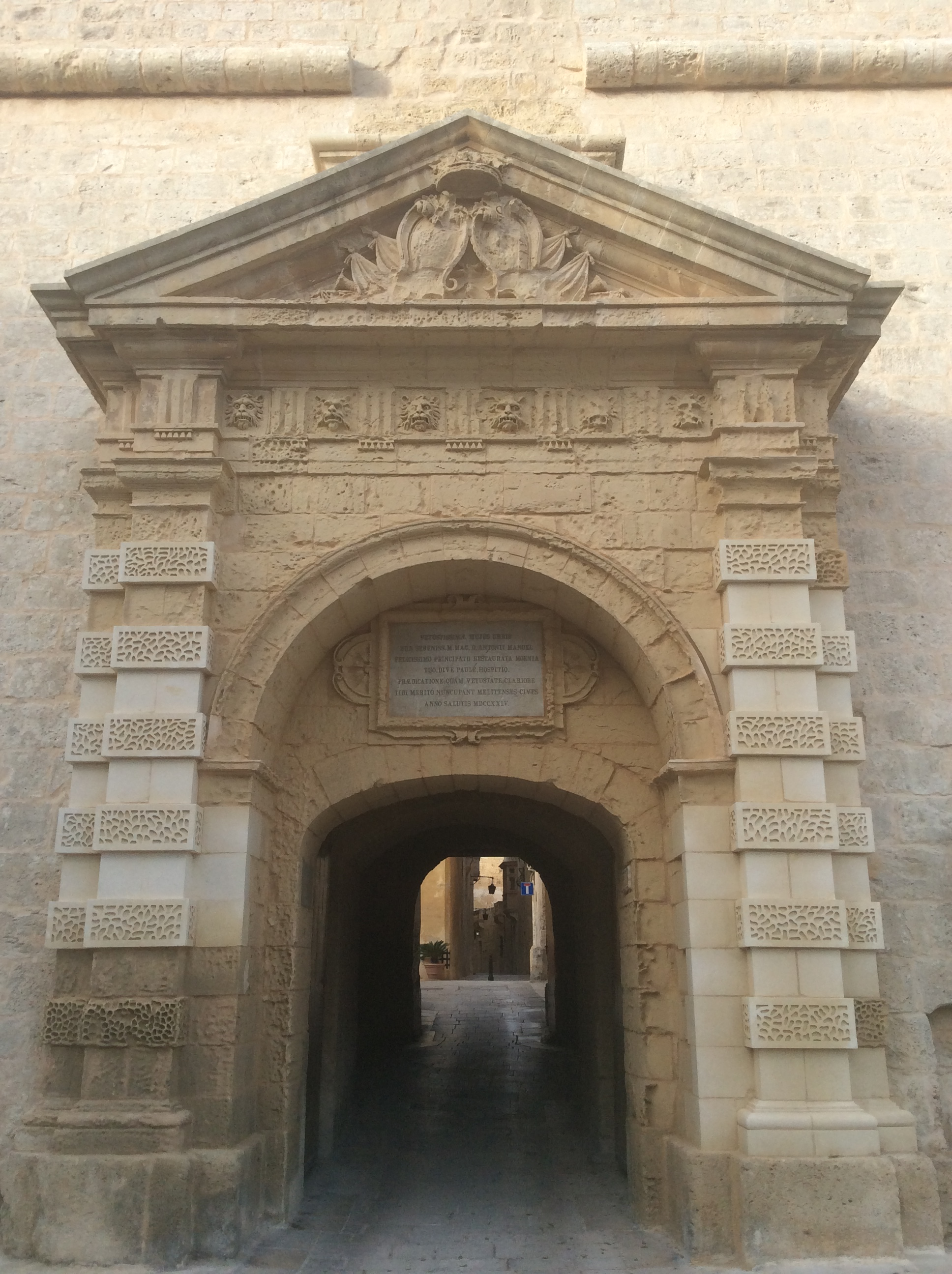 Porta Greca